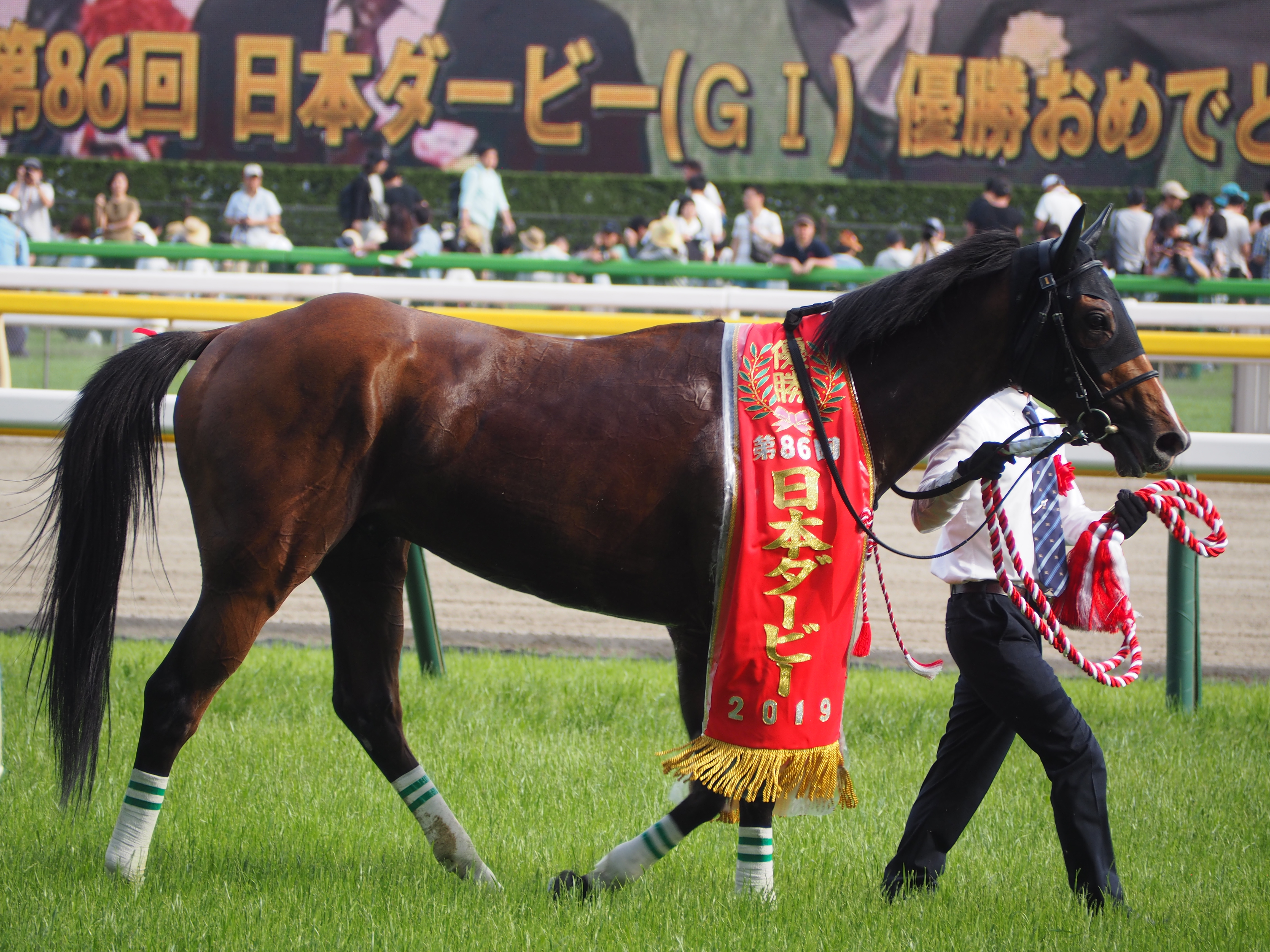 Derby winner roger barows and suguru hamanaka / 86th Tokyo Yushun Japanese Derby 2019 日本ダービー